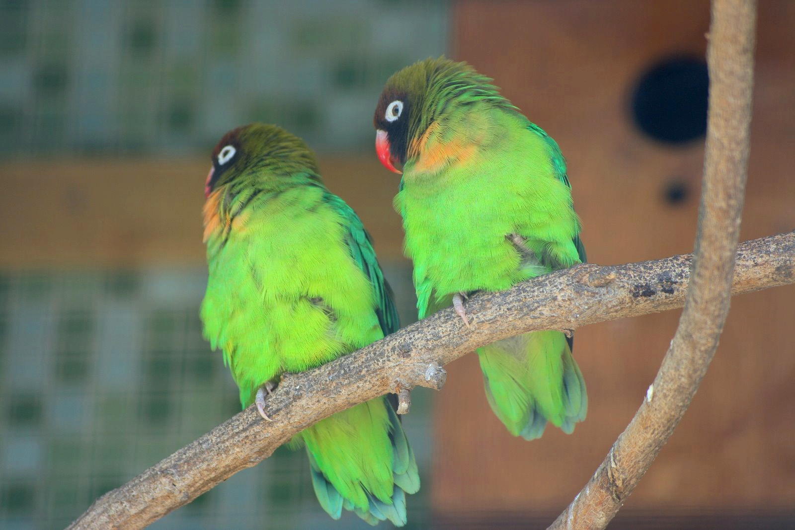 Black-cheeked Lovebird at London Zoo, England.